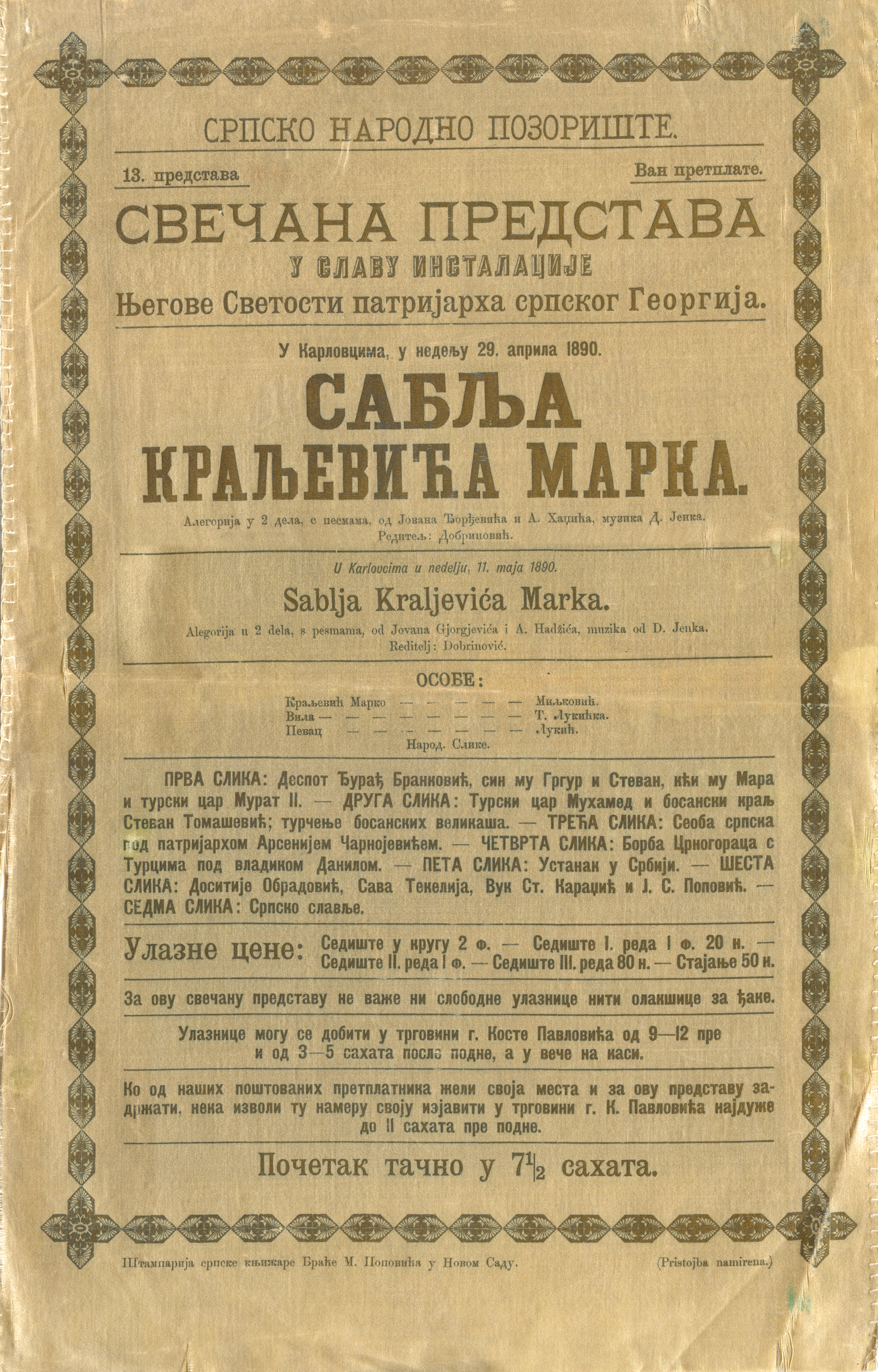 Silk Poster for the performance: The Sabre of Kraljević Marko in Sremski Karlovci, 11th May 1890 Srpski (latinica): Plakat na svili za predstavu: Sablja Kraljevića Marka u Sremskim Karlovcima 11. maja 1890. Српски (ћирилица): Плакат на свили за представу: Сабља Краљевића Марка у Сремским Карловцима 11. маја 1890.